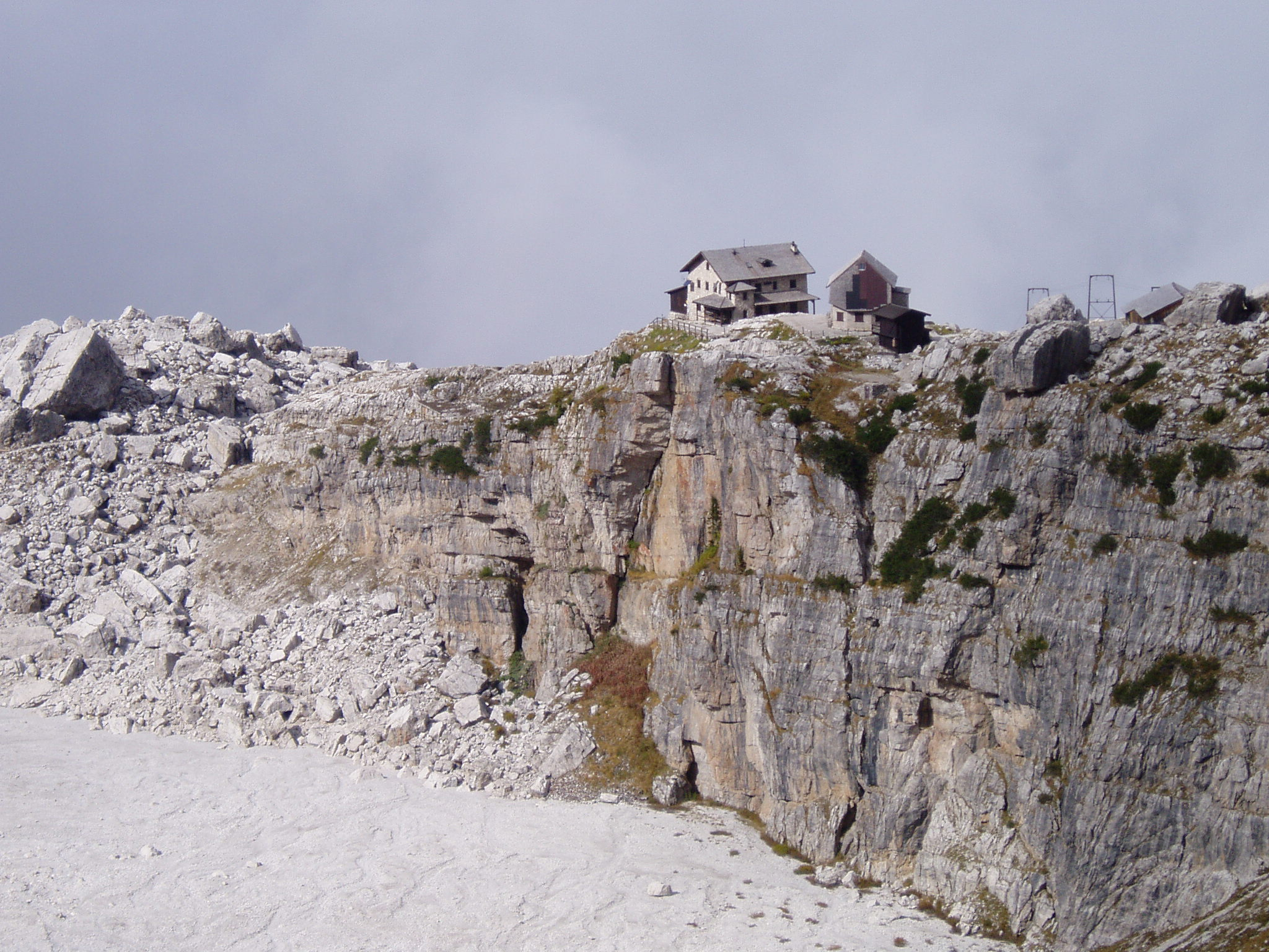 View to Rifugio Tuckett from Sentiero SOSAT